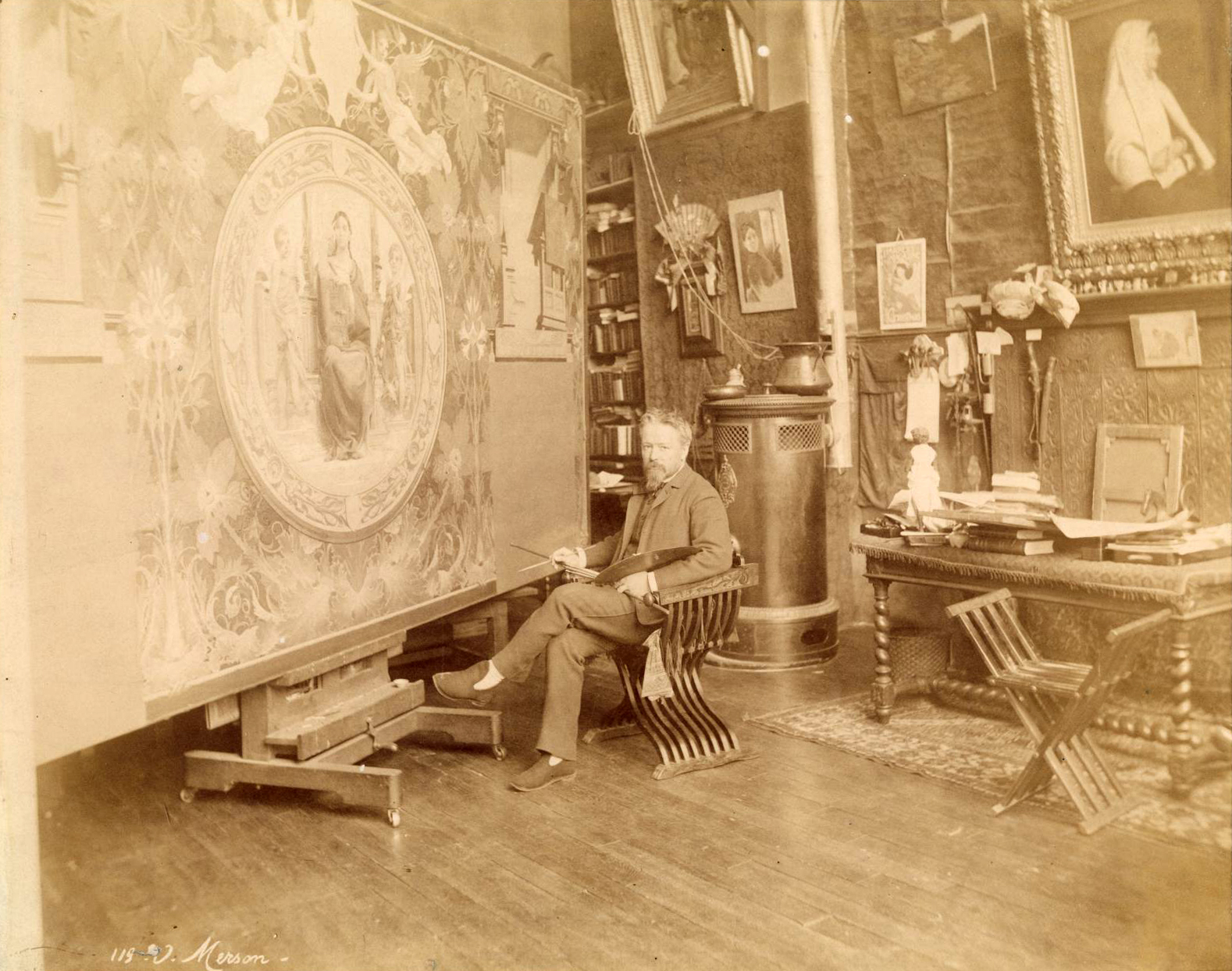 Luc-Olivier Merson in his Paris studio